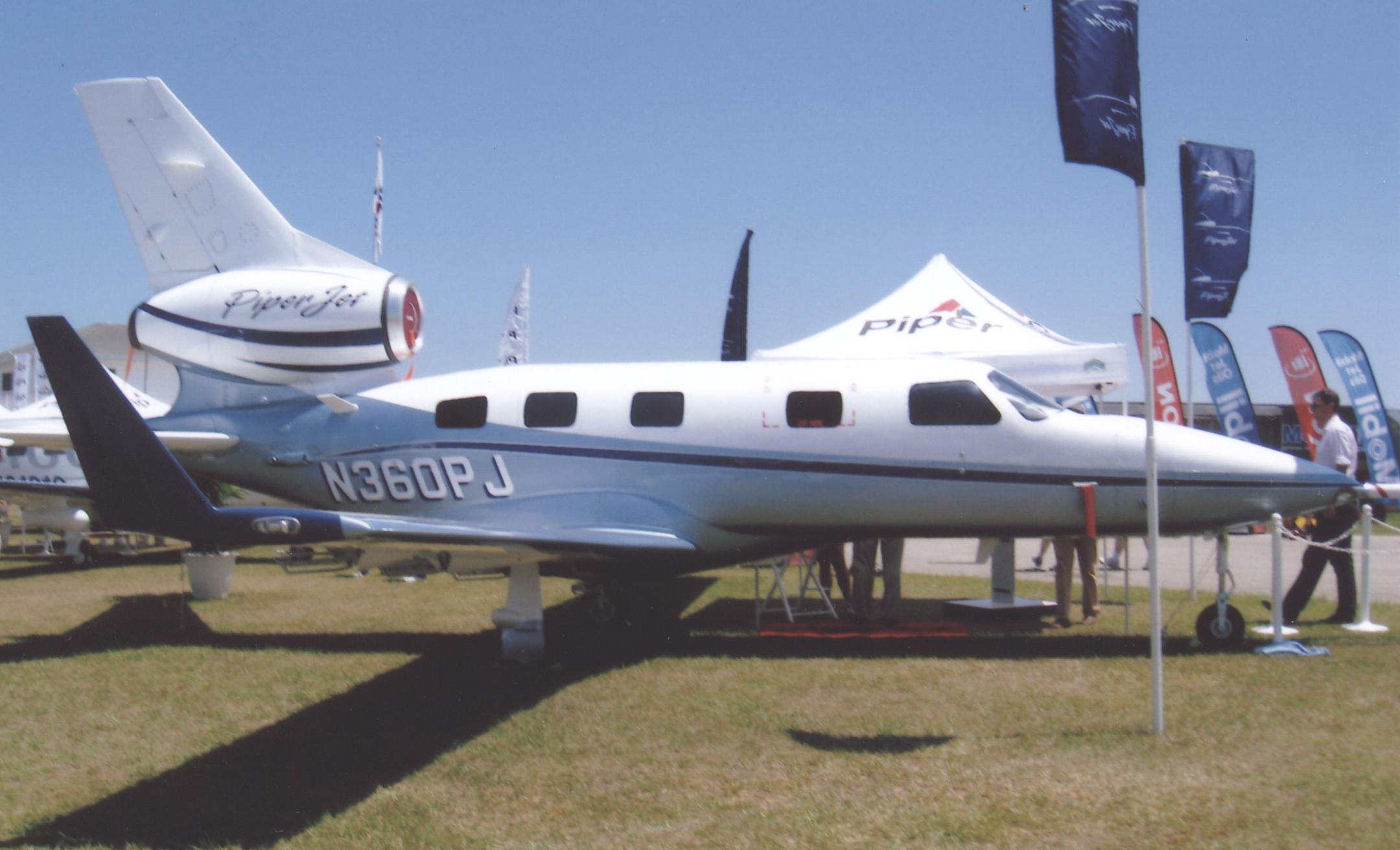 Piper PA-47 PiperJet prototype N360PJ at Lakeland Florida